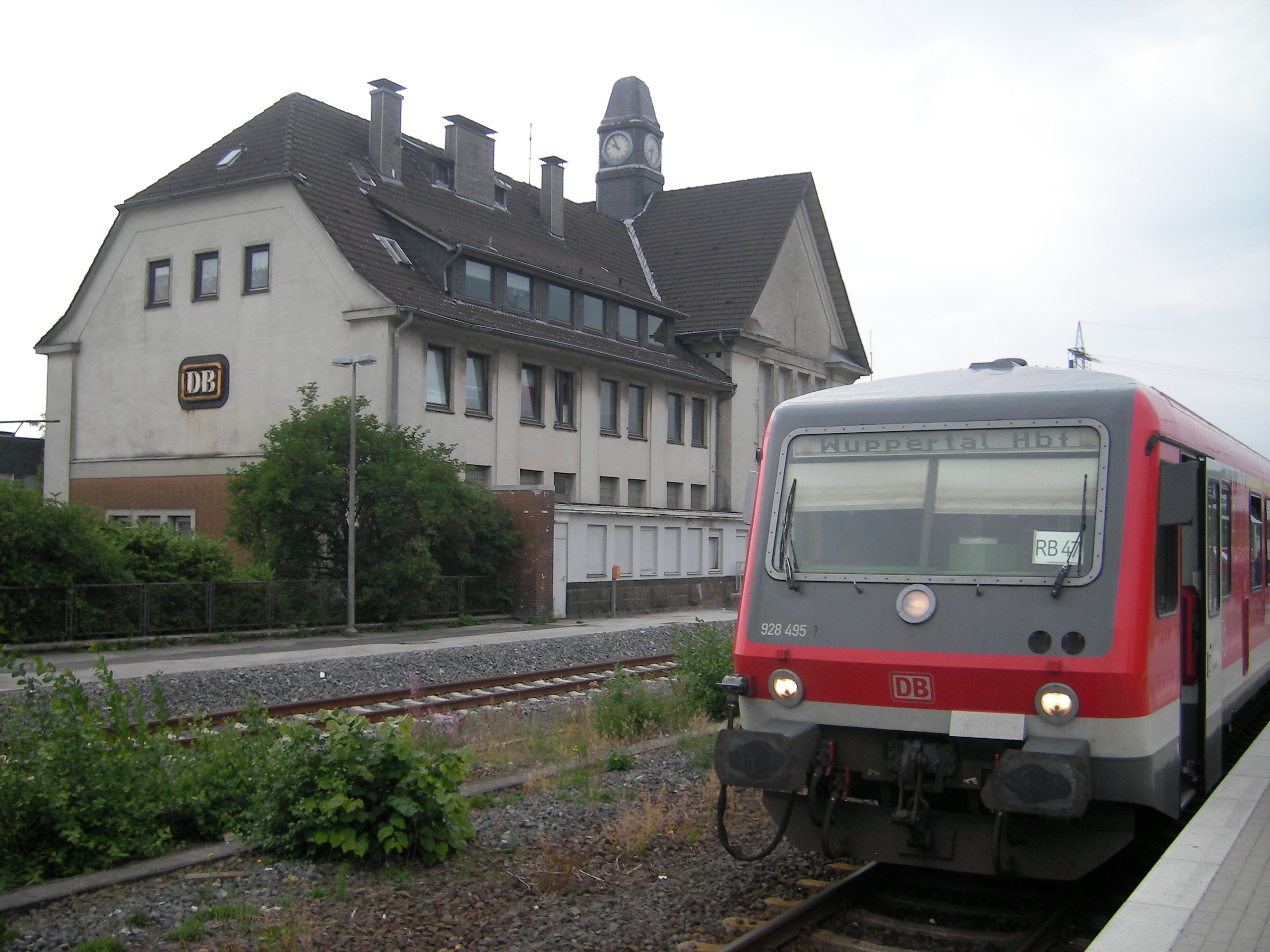 The train station building of Remscheid-Lennep